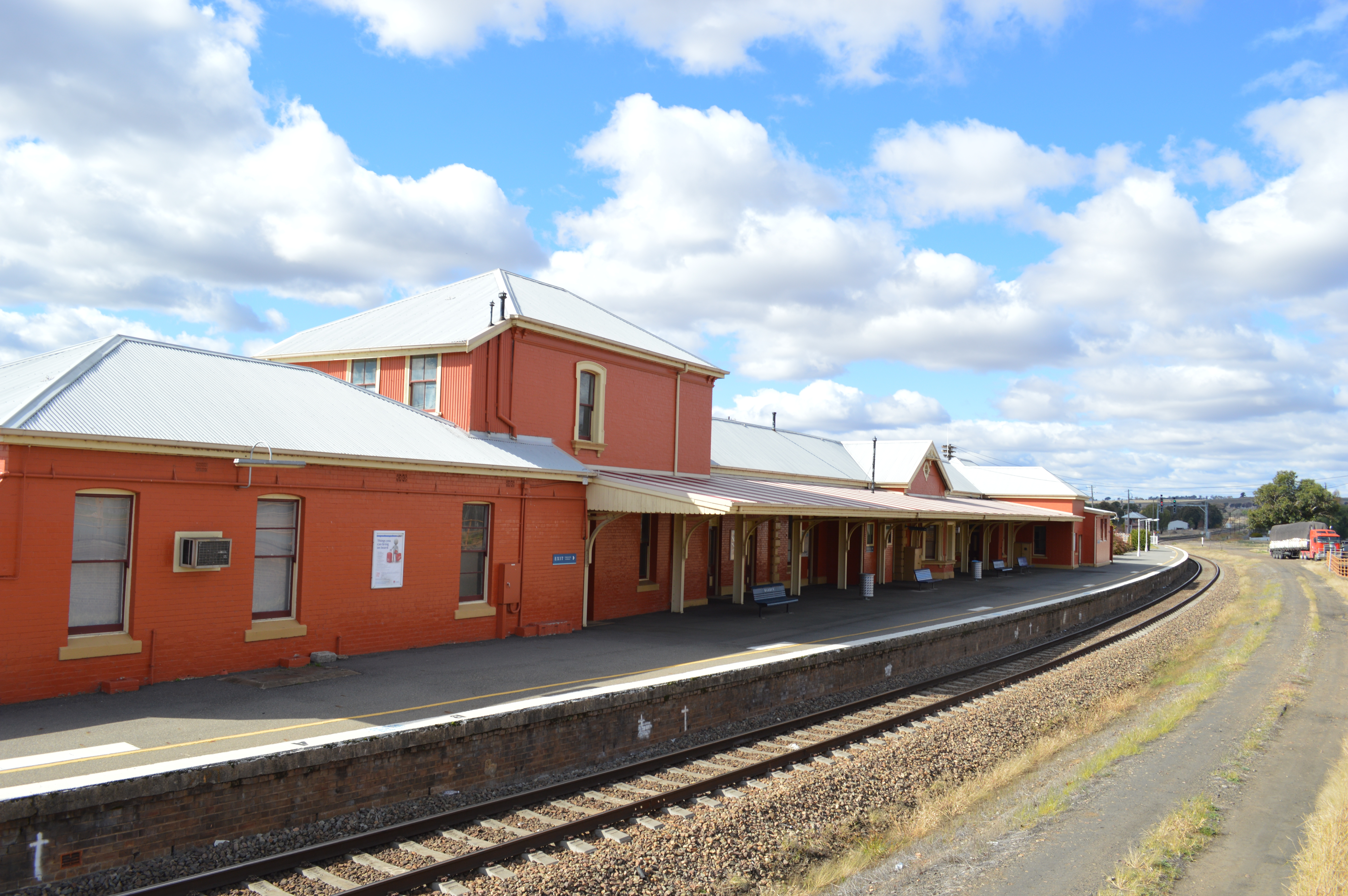 Railway station at Harden, New South Wales